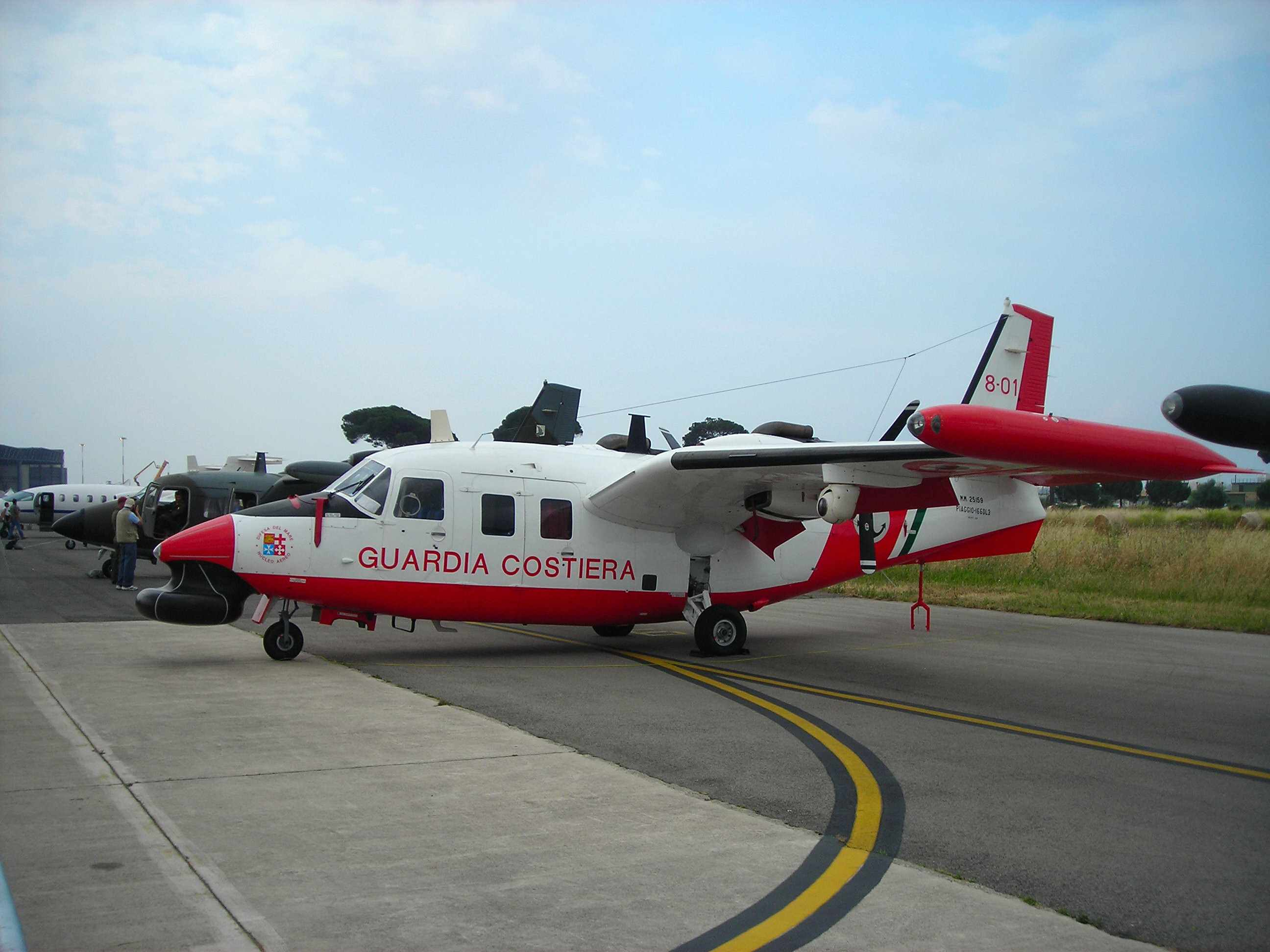 Picture taken during "Giornata Azzurra" 2007 (Italian Air Force airshow) at Pratica di Mare AFB, Italy. Piaggio P.166 DL3 of Italian Coast Guard.